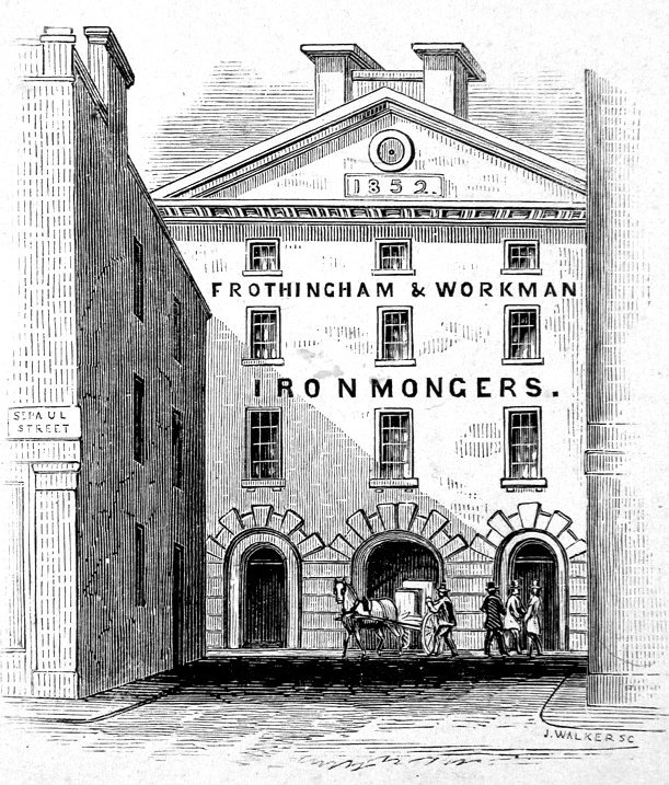 Frothingham and Workman, Iron Mongers, Montreal (Quebec, Canada). Ink on paper on supporting paper - Wood engraving.